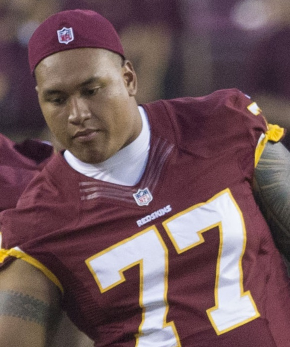 Jaguars at Redskins 9/3/15